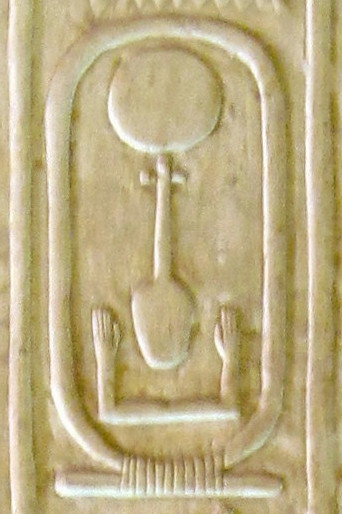 Cartouche 19, Abydos King List. Temple of Seti I, Abydos, Egypt